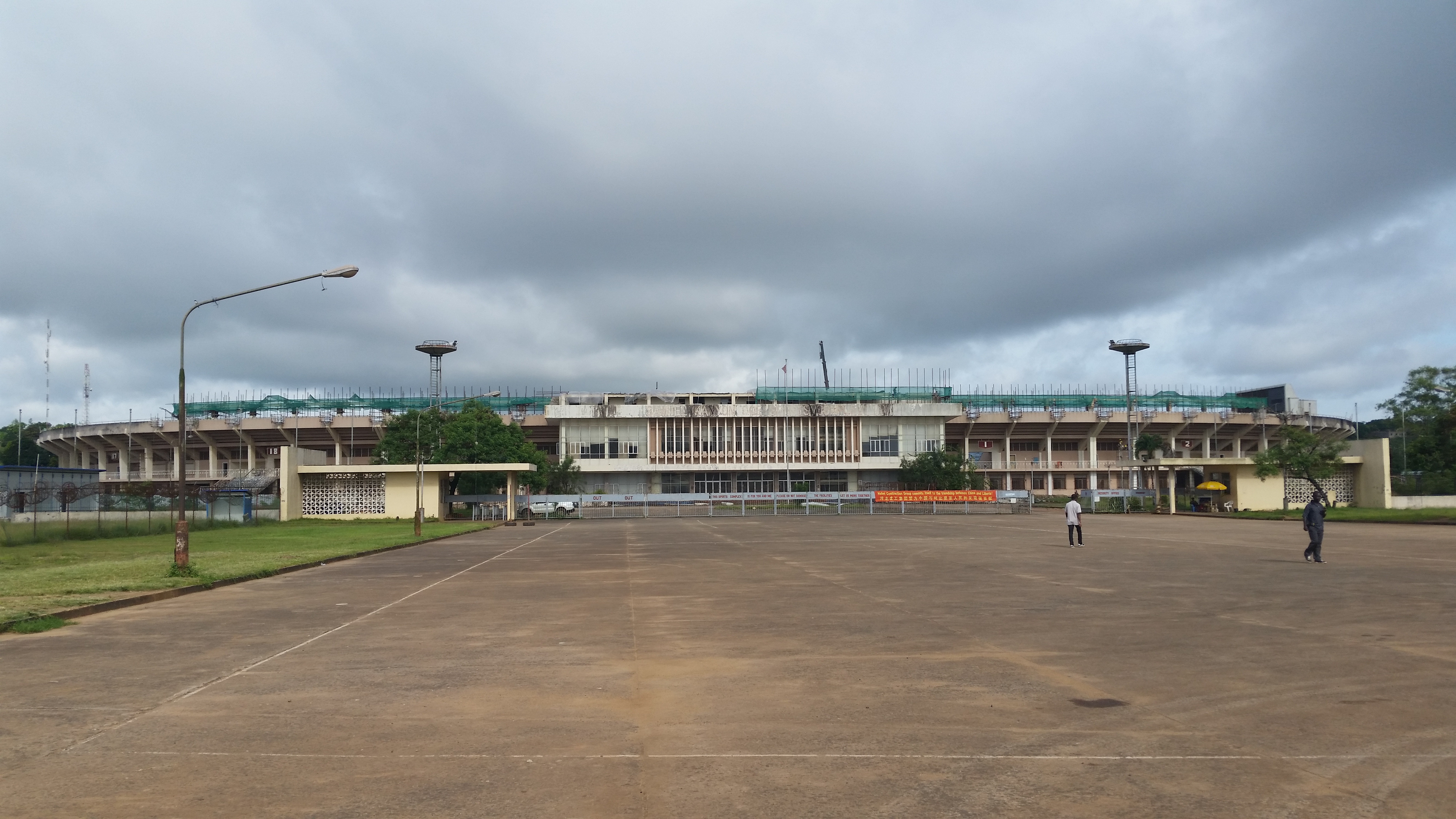 Samuel Kanyon Doe Stadium, Monrovia, Liberia, 2015